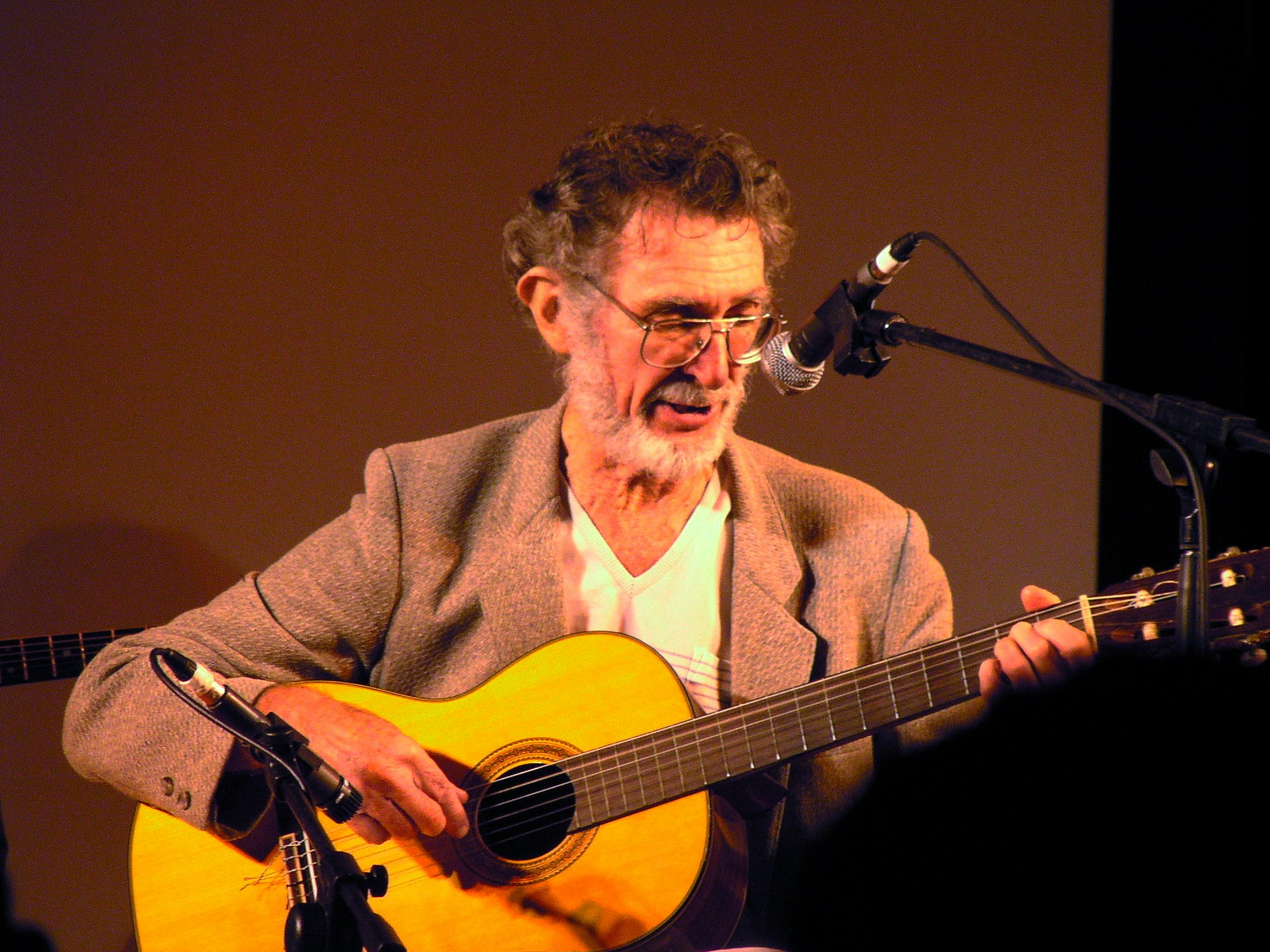 John Dengate on stage at the 2004 National Folk Festival in Canberra (note that the clock in the camera had reset and that date is wrong)